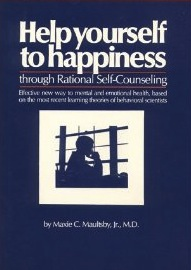 Photograph of Help Yourself to Happiness 2